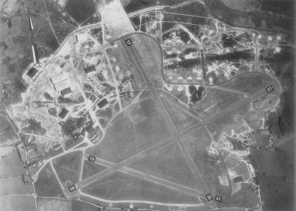 Aerial photograph of Hurn Airfield, England.